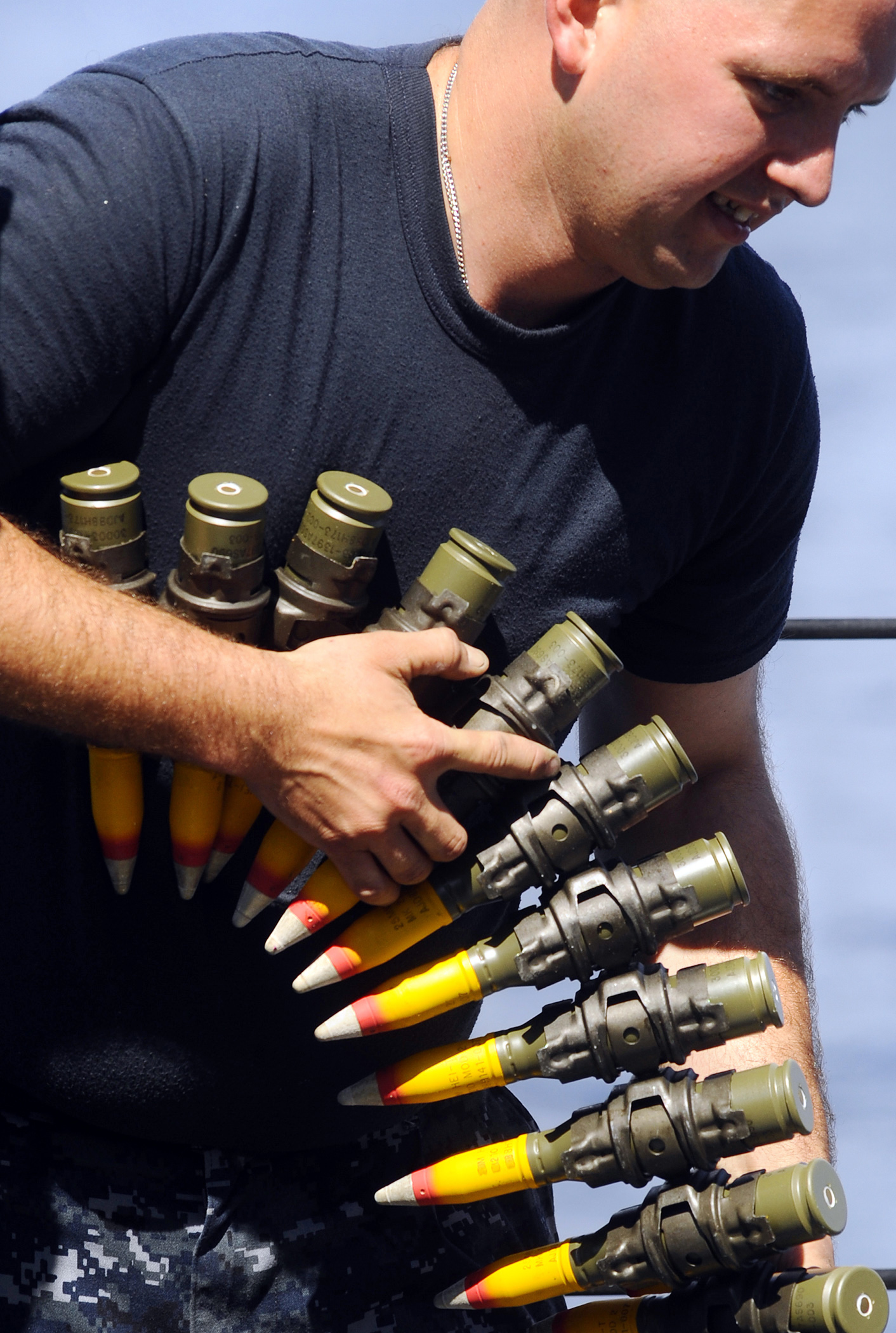 ADRIATIC SEA (May 29, 2009) Gunner's Mate 2nd Class Michael Miller downloads an ammo belt from an MK 38 25mm gun aboard the amphibious dock landing ship USS Fort McHenry (LSD 43). Fort McHenry is on a scheduled deployment with the Bataan Amphibious Readiness Group supporting maritime security operations in the U.S. 5th and 6th Fleet areas of responsibility. (U.S. Navy photo by Mass Communication Specialist 2nd Class Kristopher Wilson/Released)